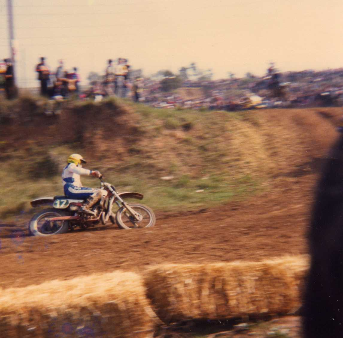 Toni Arcarons (Montesa) at Circuit del Vallès, Sabadell-Terrassa (Catalonia), during the 1981 spanish MX GP 250cc.